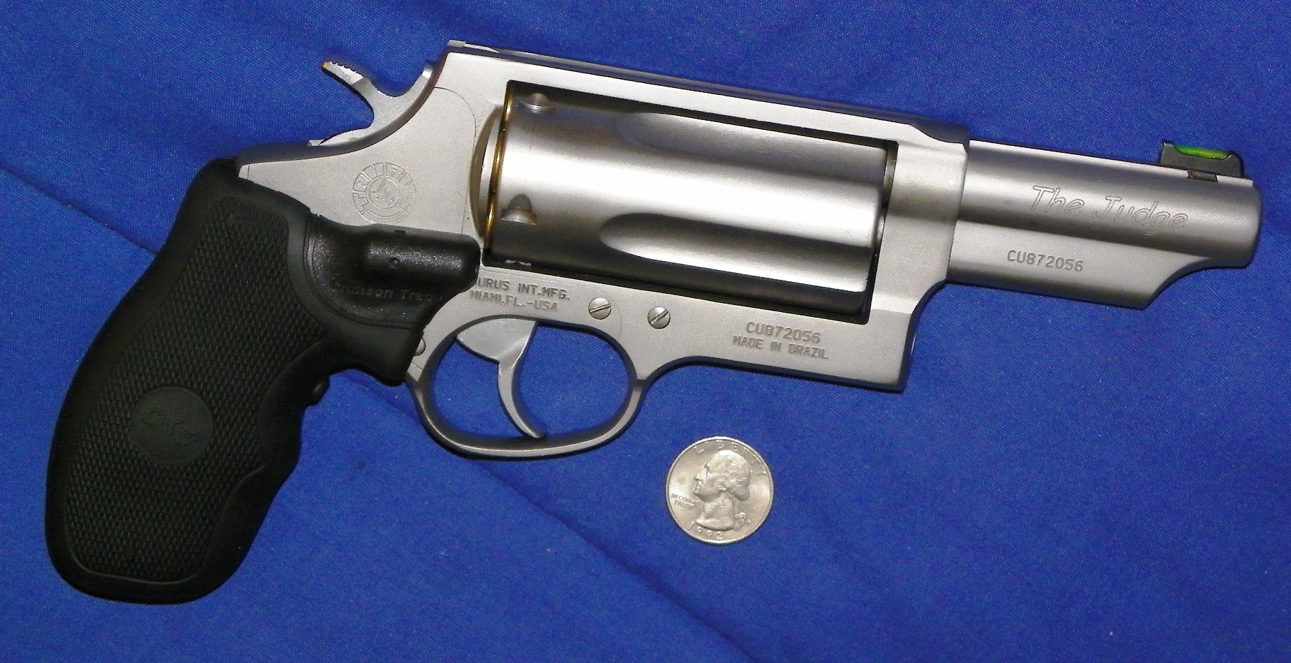 Taurus Judge 'Magnum' chambered in .45LC/.410 Bore, fitted with laser grip (US Quarter coin shown for scale)